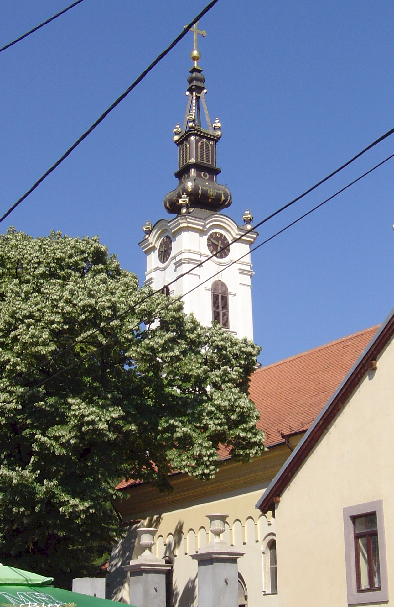 St. Nicholas ortodox church in Zemun.